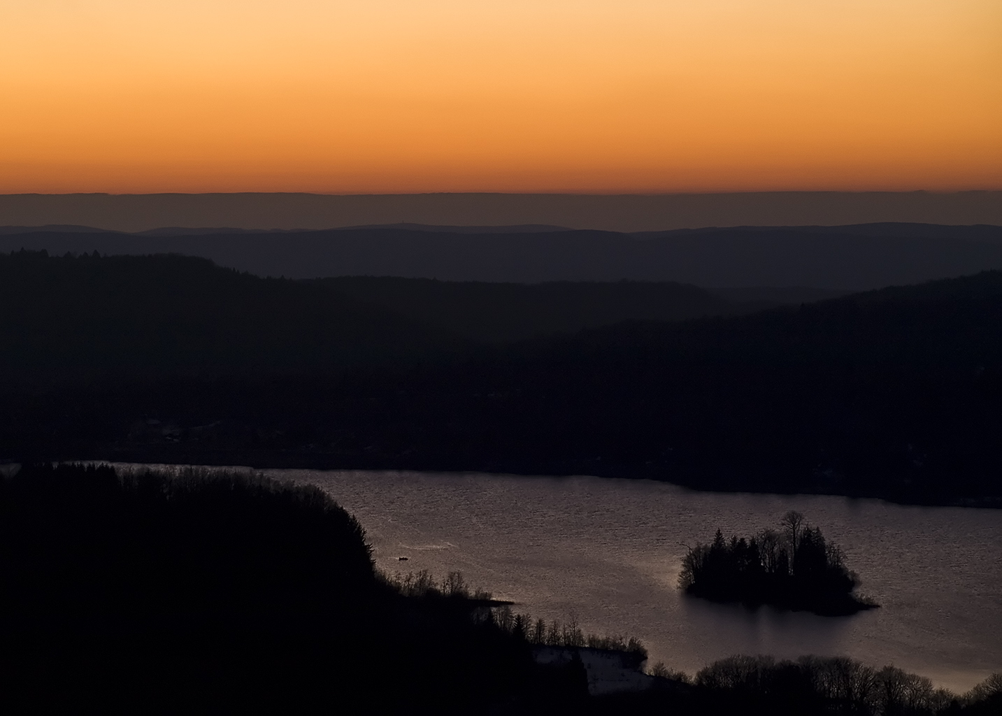 Ilay Lake, in the Jura Mountains, France